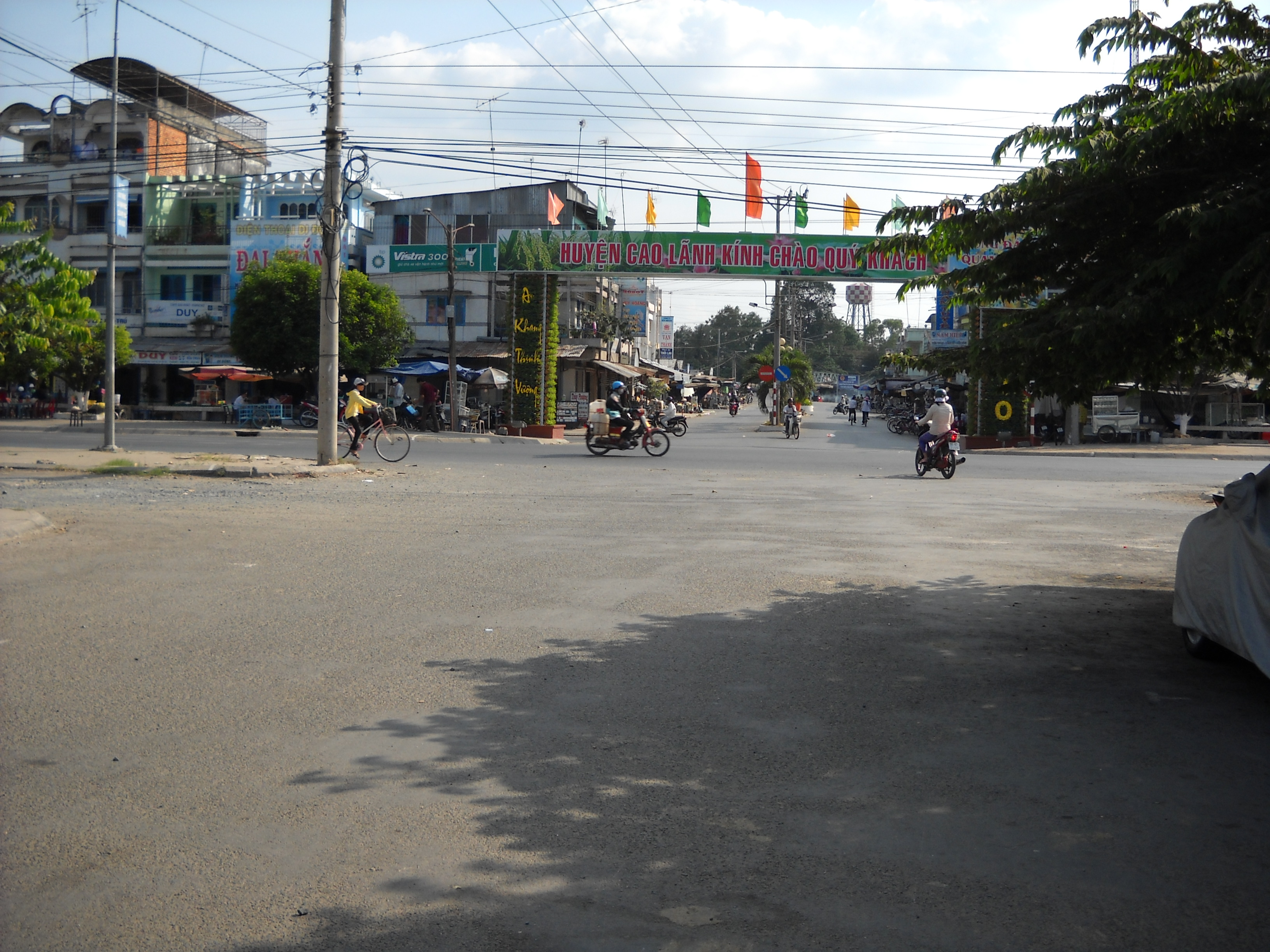 Street of My Tho town, capital of Cao Lanh District, Dong Thap Provice